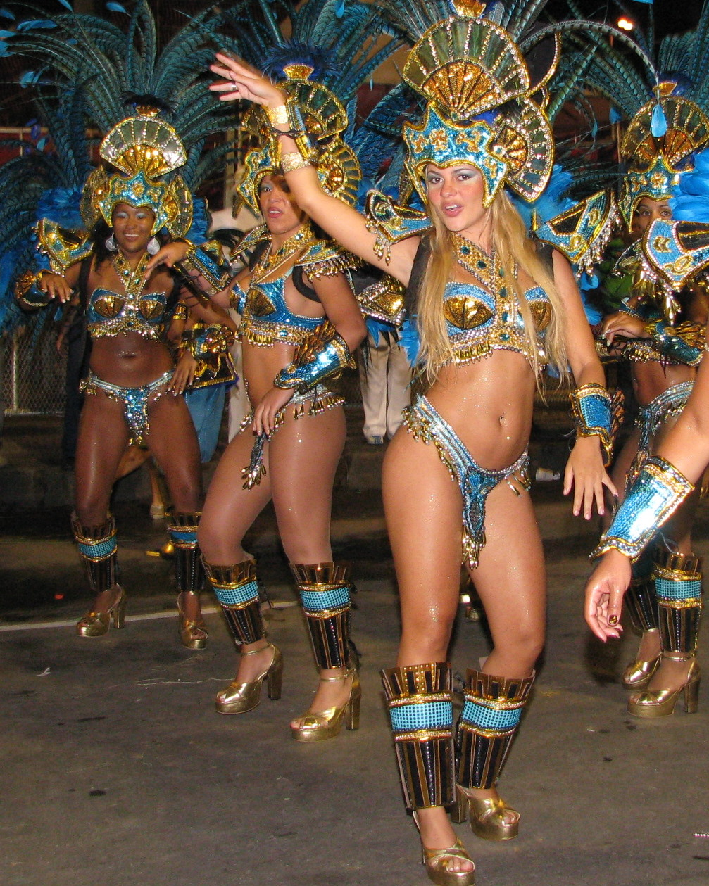 Dancers say the platform sandals, preferably with shiny straps and buckles that snake to the knee, help prevent them from tipping over and injuring their ankles while dancing the lightning-quick gyrations of the samba. "Platforms are safer," said Iris Sol, 28, a dancer for the drum section of the Barroca Zona Sul samba club in Sao Paulo. "I've paraded with samba troupes since I was six, but the truth is that I was dancing samba when I was born," she said. Sandals with platform heels push body weight onto the ball of the foot, where the samba is danced. Samba platforms go as high as 17 centimeters, or 6.6 inches. Heels are extra-wide. "Platforms make women more beautiful, elegant and taller, with better posture. They help you stick out your chest and butt a bit," said Magaly Santos, 22, Sao Paulo's 2005 Carnival queen.